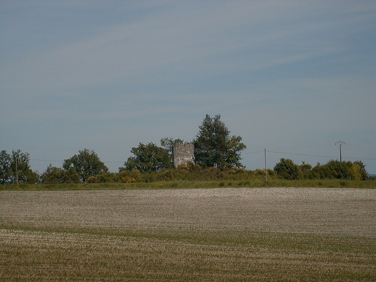 Monmarvès (Dordogne)